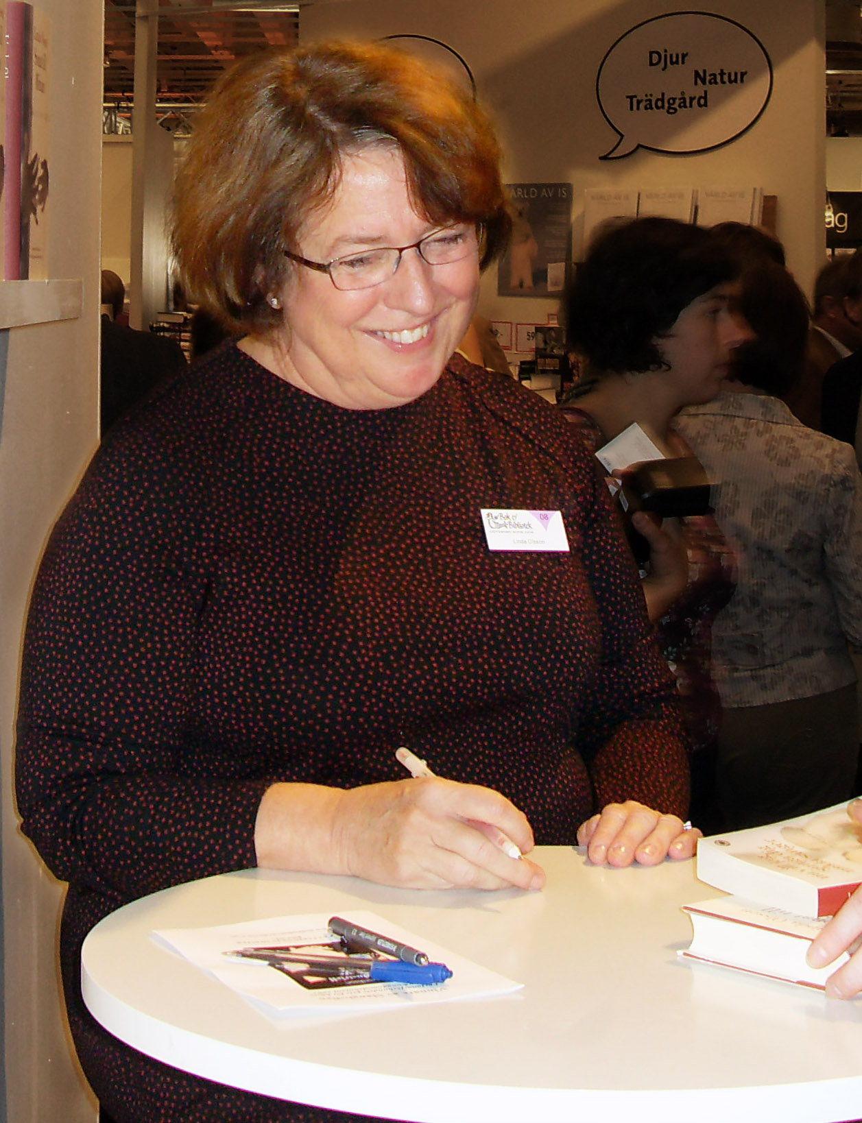 Swedish author Linda Olsson at gothenburg book fair 2008